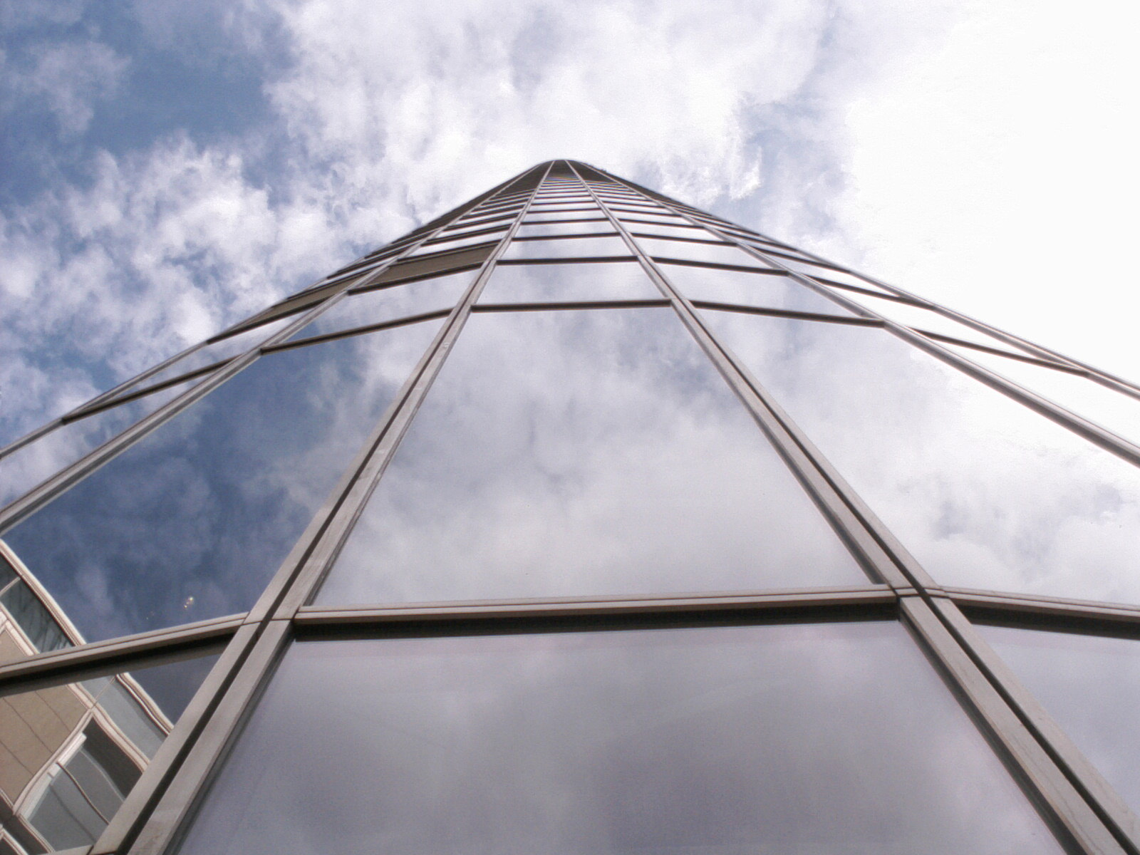 The Main Tower